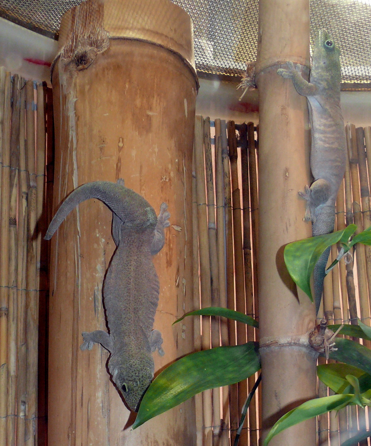 Standing's Day Gecko (Phelsuma standingi)